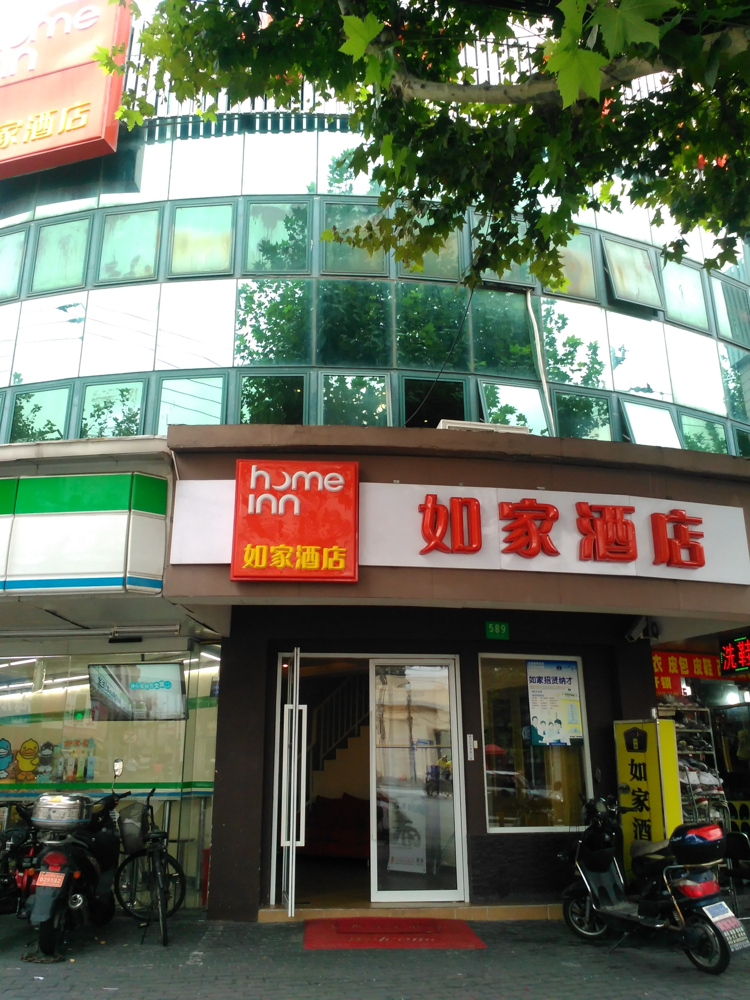 A Home Inn in Shanghai